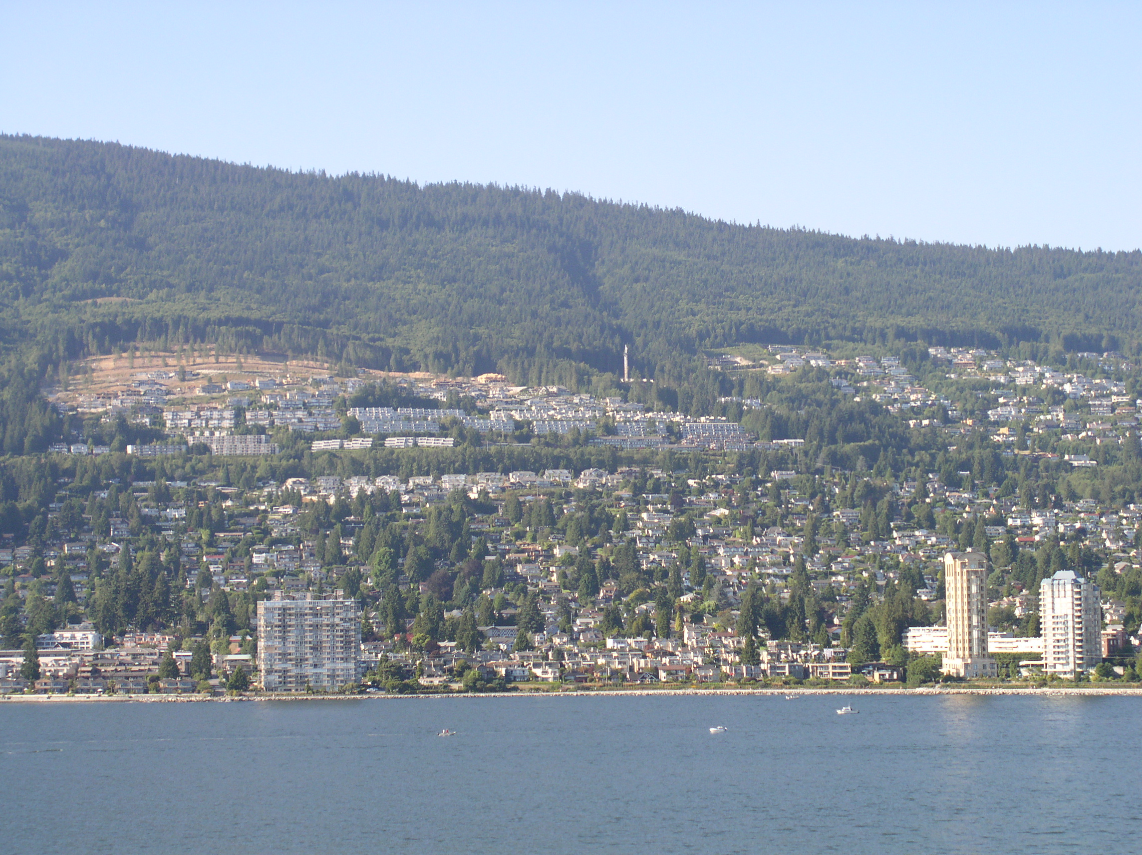 A portion of West Vancouver as seen from the water